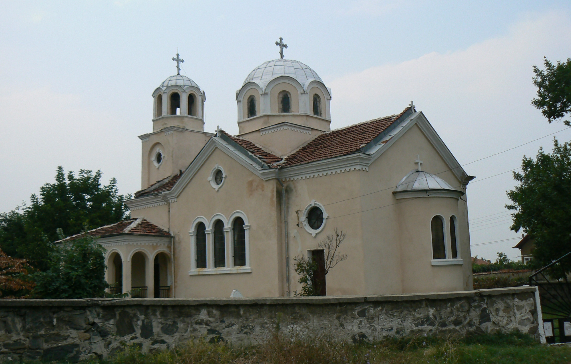 Church "Prophet Ilia" in village Lyahovo, district Pazardjik, Bulgaria